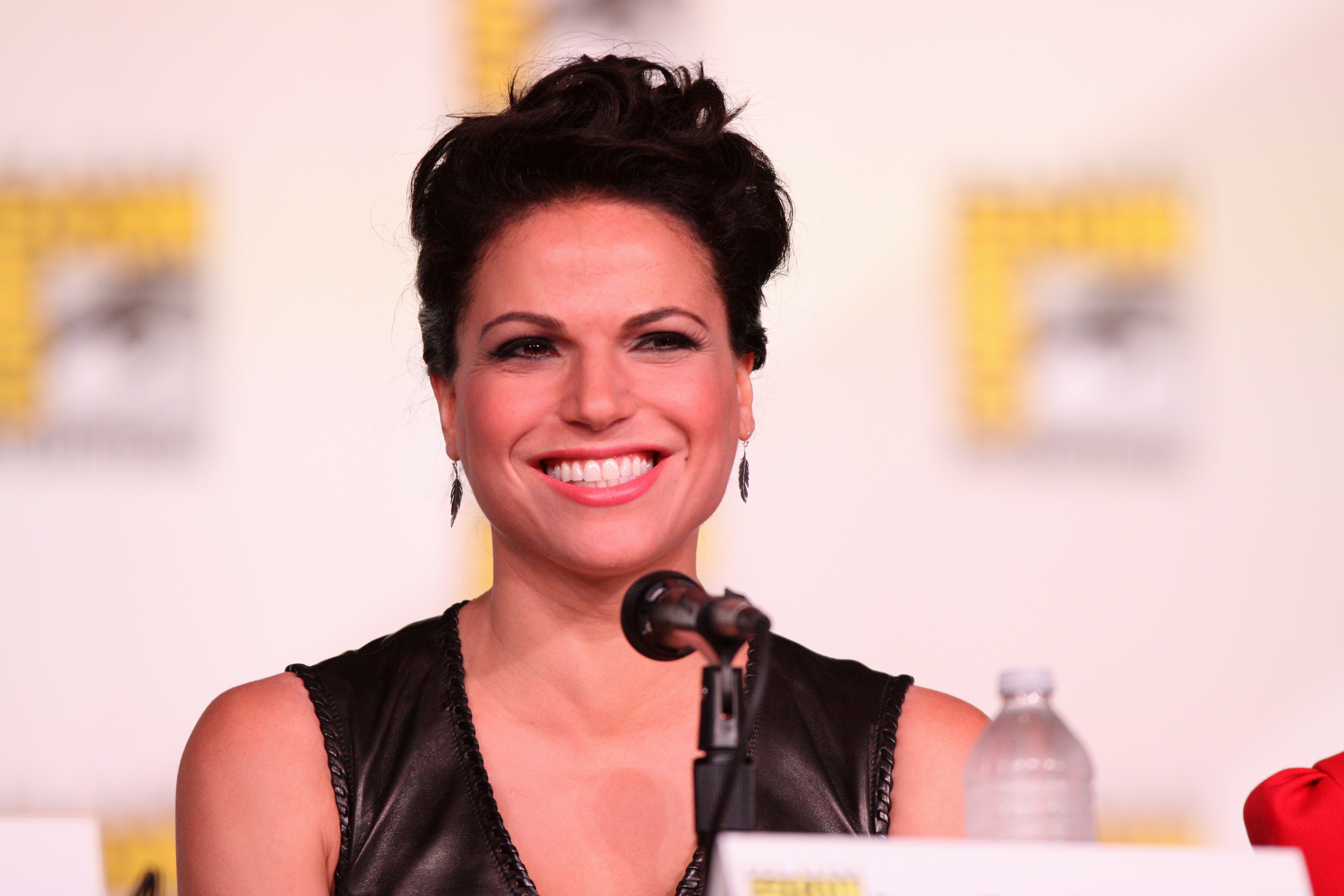 Lana Parrilla speaking at the 2012 San Diego Comic-Con International in San Diego, California.